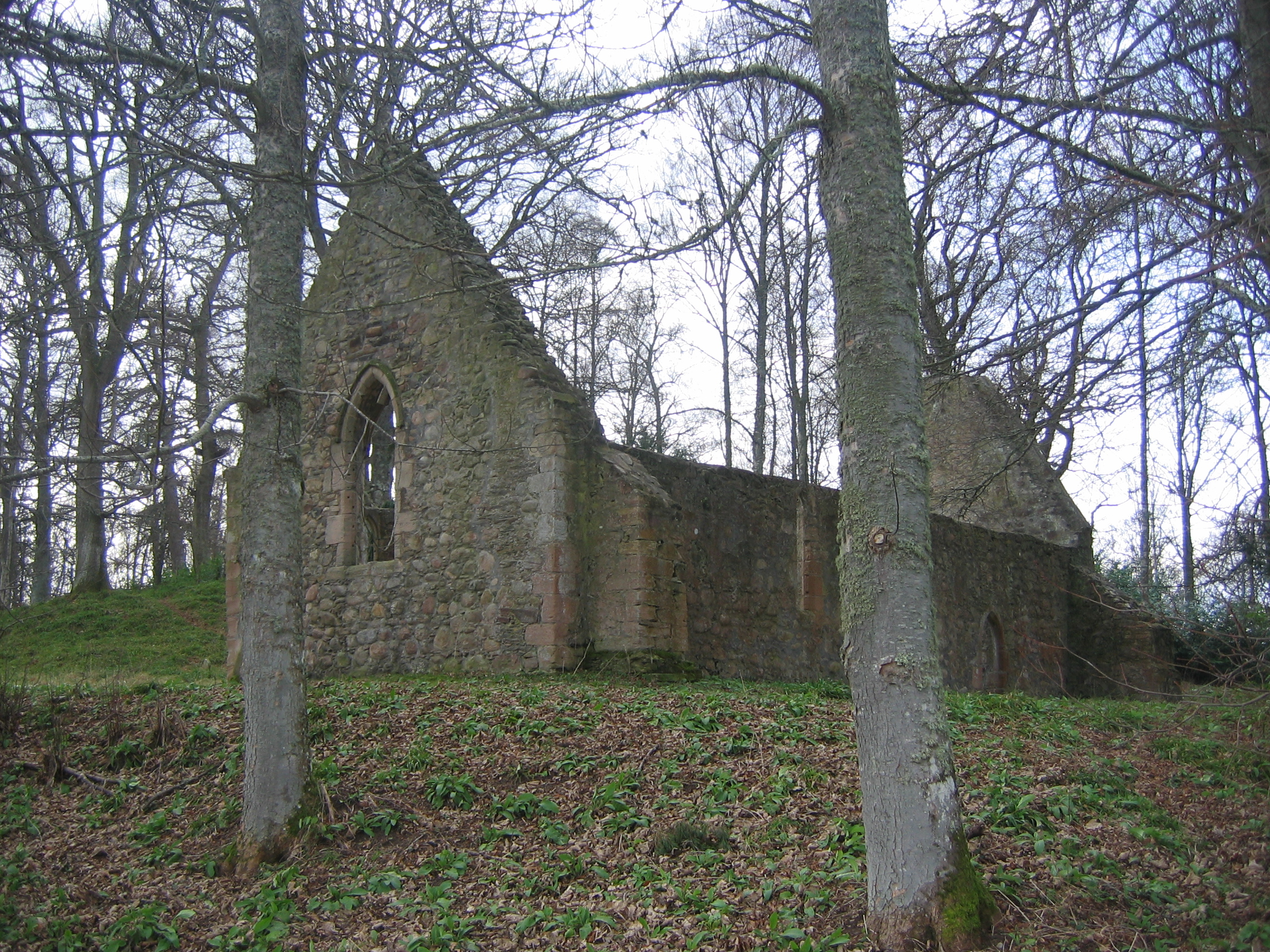 Altyre, Old Church